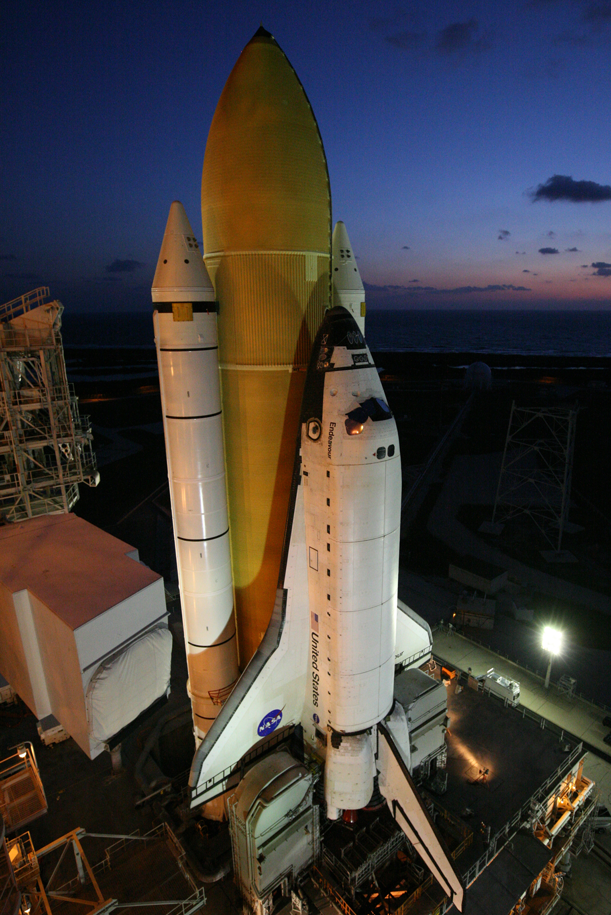 Sitting atop its mobile launcher platform, Space Shuttle Endeavour welcomes the dawn after arriving on Launch Pad 39B. The shuttle includes the while solid rocket boosters and orange external fuel tank.